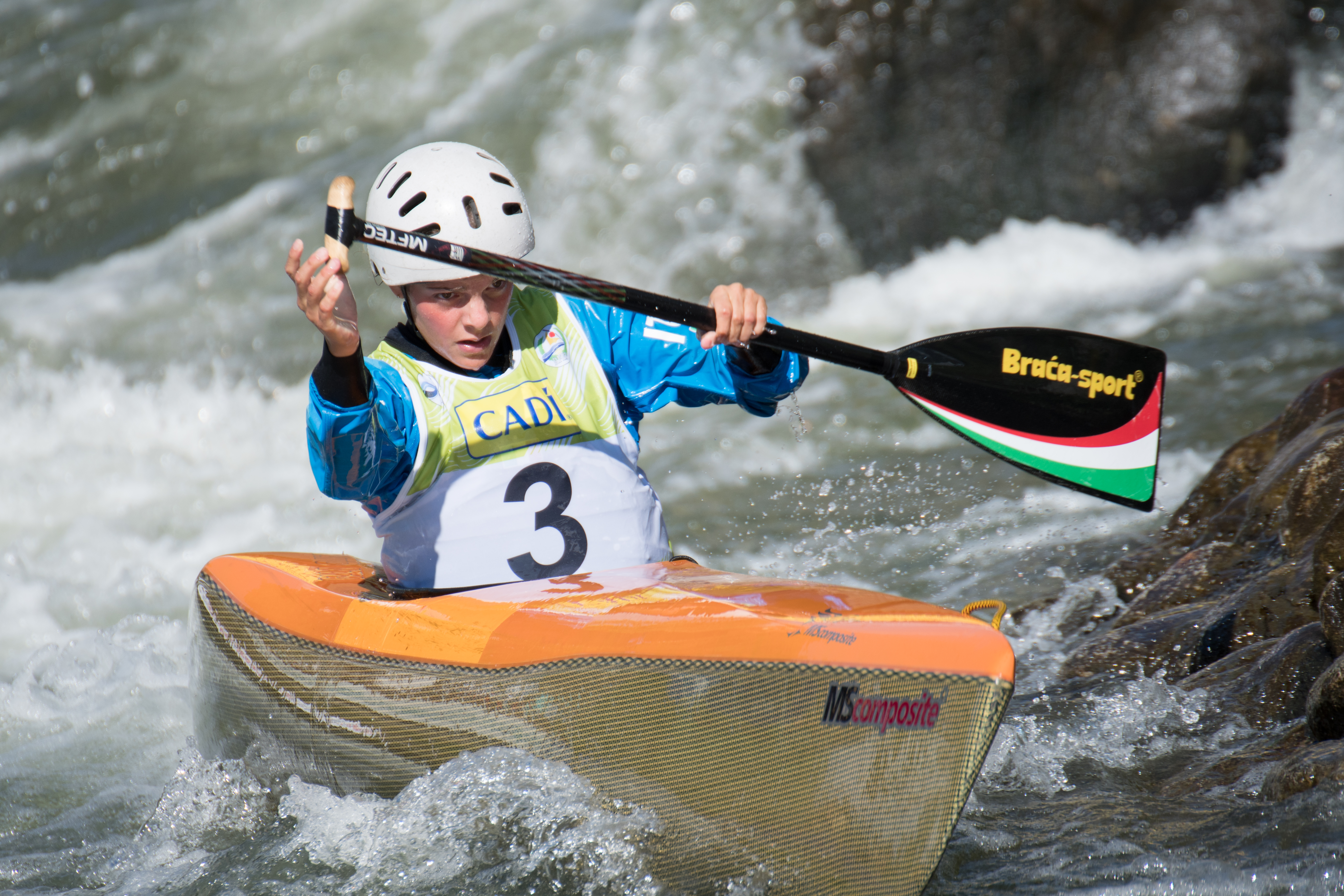 Cecilia Panato during the 2019 Canoe Wildwater World Championships in La Seu d'Urgell, Spain.